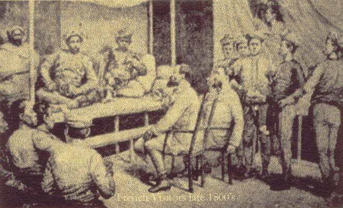 Sultan Jamal ul-Azam of Sulu who reign over the Sulu Archipelago and parts of northern Borneo in discussion with French delegation in the Sultan palace over the possible cession of the island of Basilan to French in 1800s.